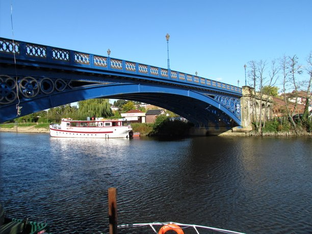 River Severn, Stourport Road Bridge